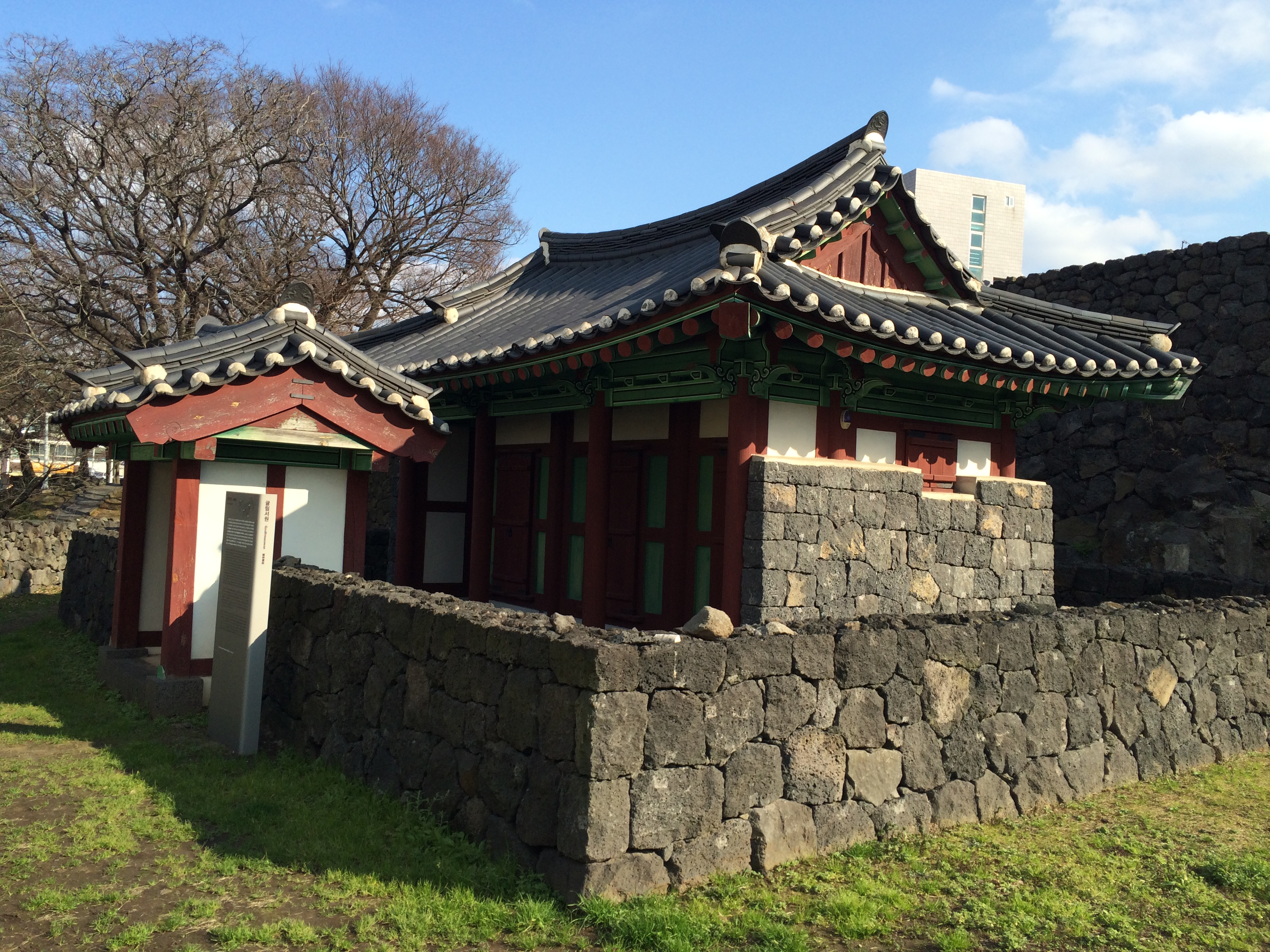 Gyulrimseowon, a traditional education organization in Jeju-do, Korea